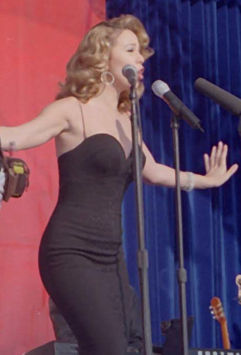 Mariah Carey at Edwards Air Force Base in Dec. 1998. Carey sings "I Still Believe" for the video. Her video "I Still Believe" was taped on Dec. 11 and 12, 1998, at Edwards Air Force Base.